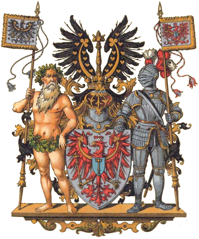 Arms of the Prussian Province of Brandenburg. Greater arms of the Province of Brandenburg.